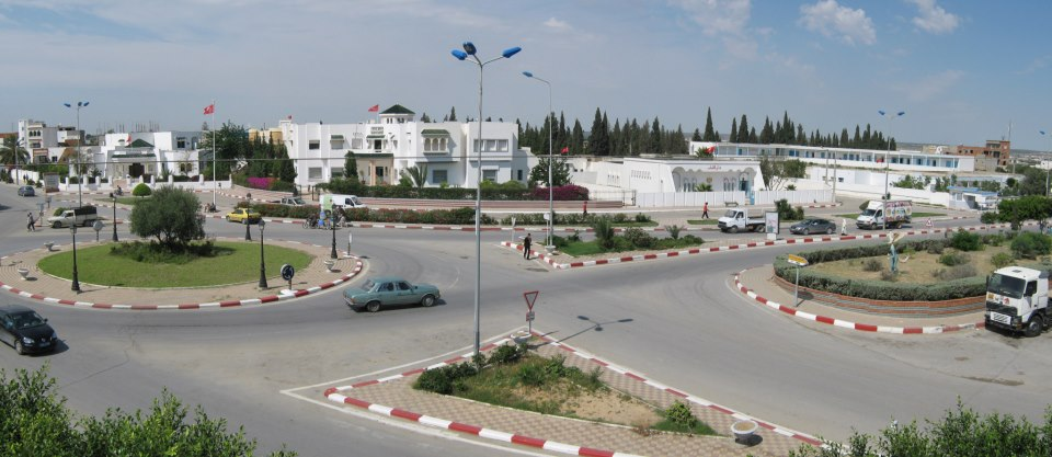 municipality